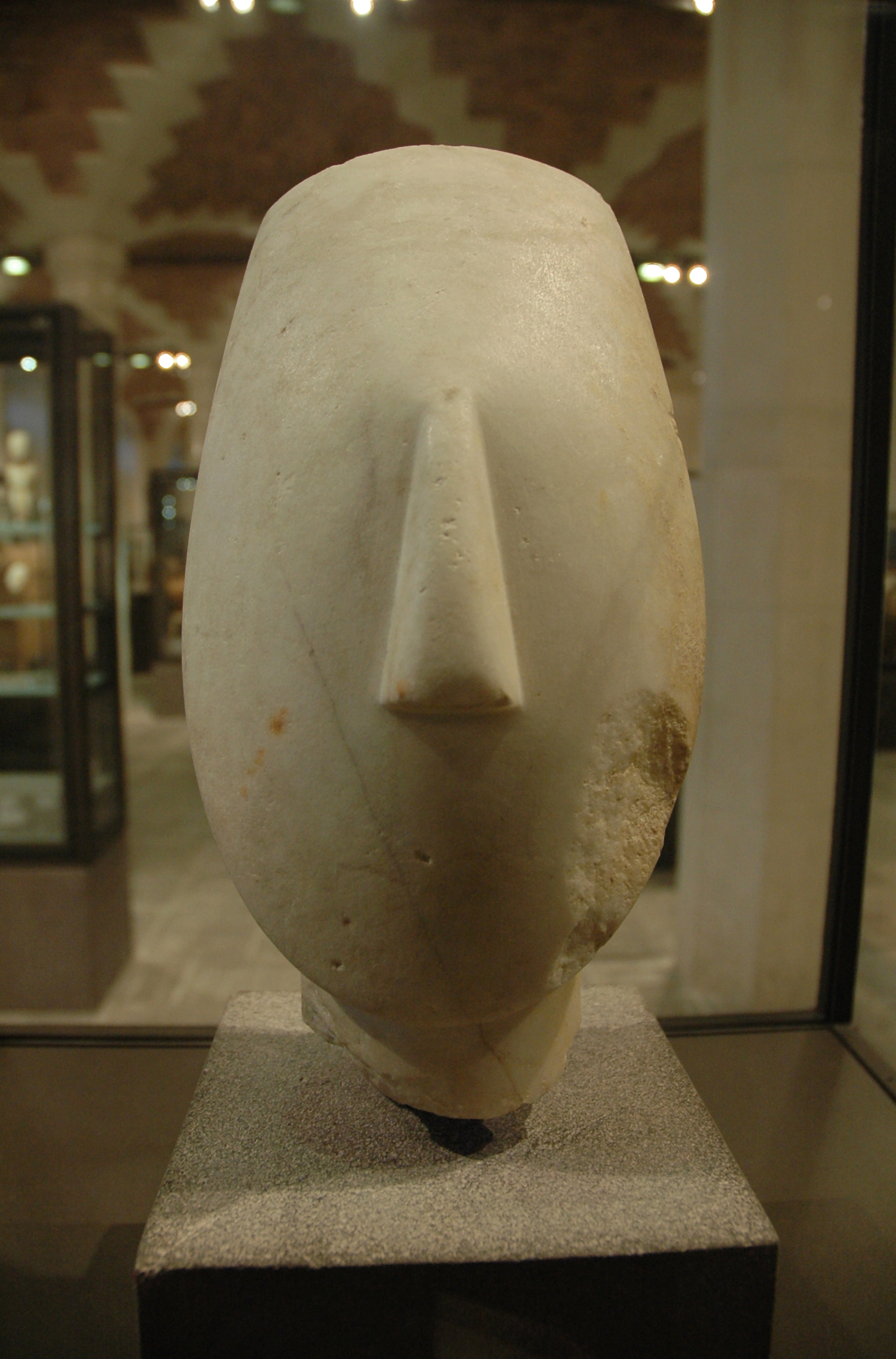 Head from the figure of a woman, Spedos type, Early Cycladic II (2700 BC–2300 BC), Keros culture.